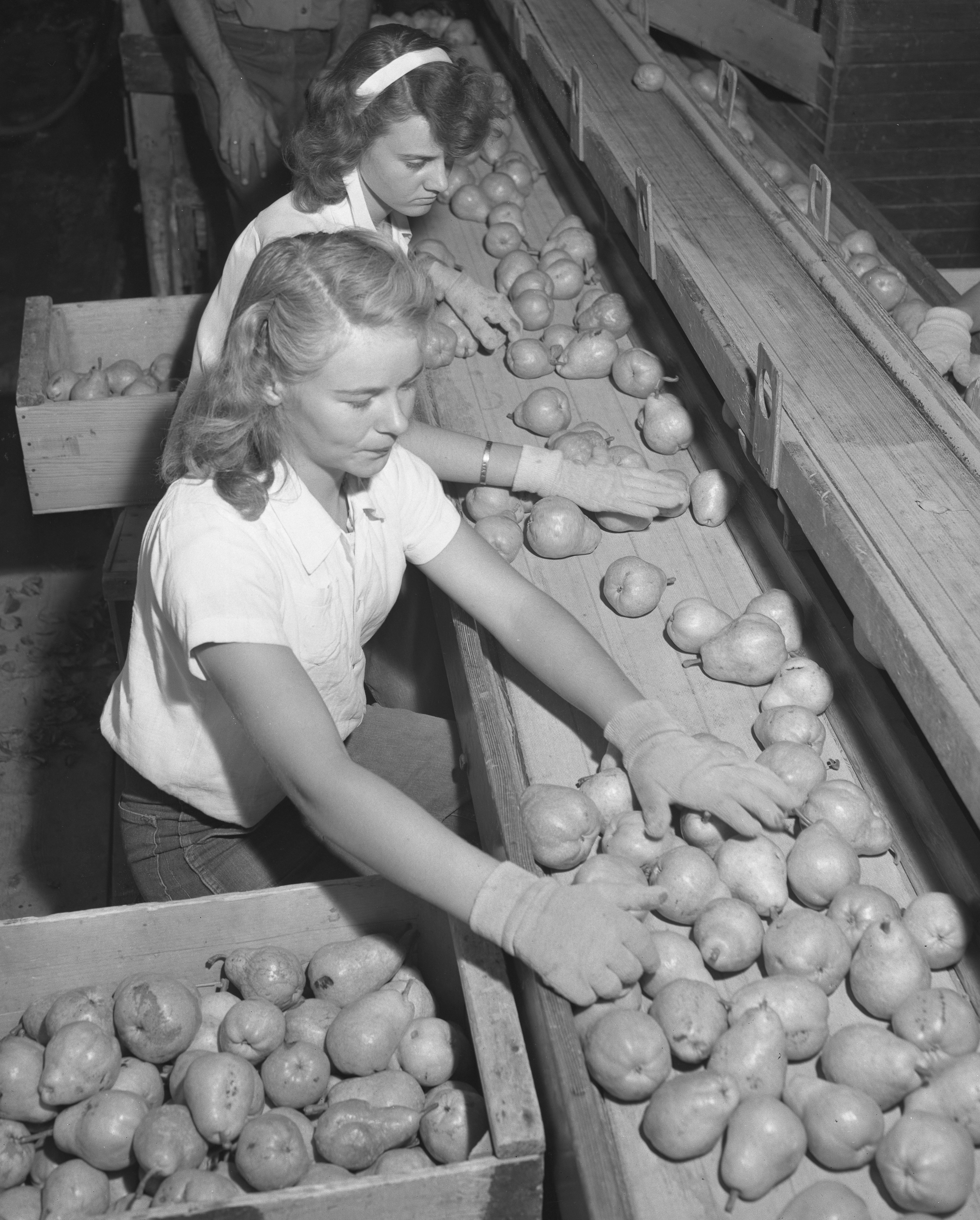 Two women agricultural workers packing pears in Littlerock, Calif., 1946 Published caption: MIRACLE PEARS: Beverly Balmer, foreground, and Hulda Hamm sort pears in Bones & Son packinghouse, Littlerock, where packers were promised 25 cents of [sic] each "wormy" pear, but found only two in 27 tons of fruit.